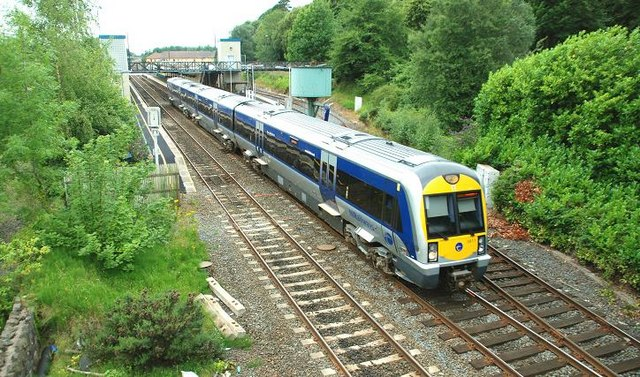 Lisburn station. See 806158. Lisburn station with the new lift shafts beside the footbridge (background). Portadown - Bangor train departing.